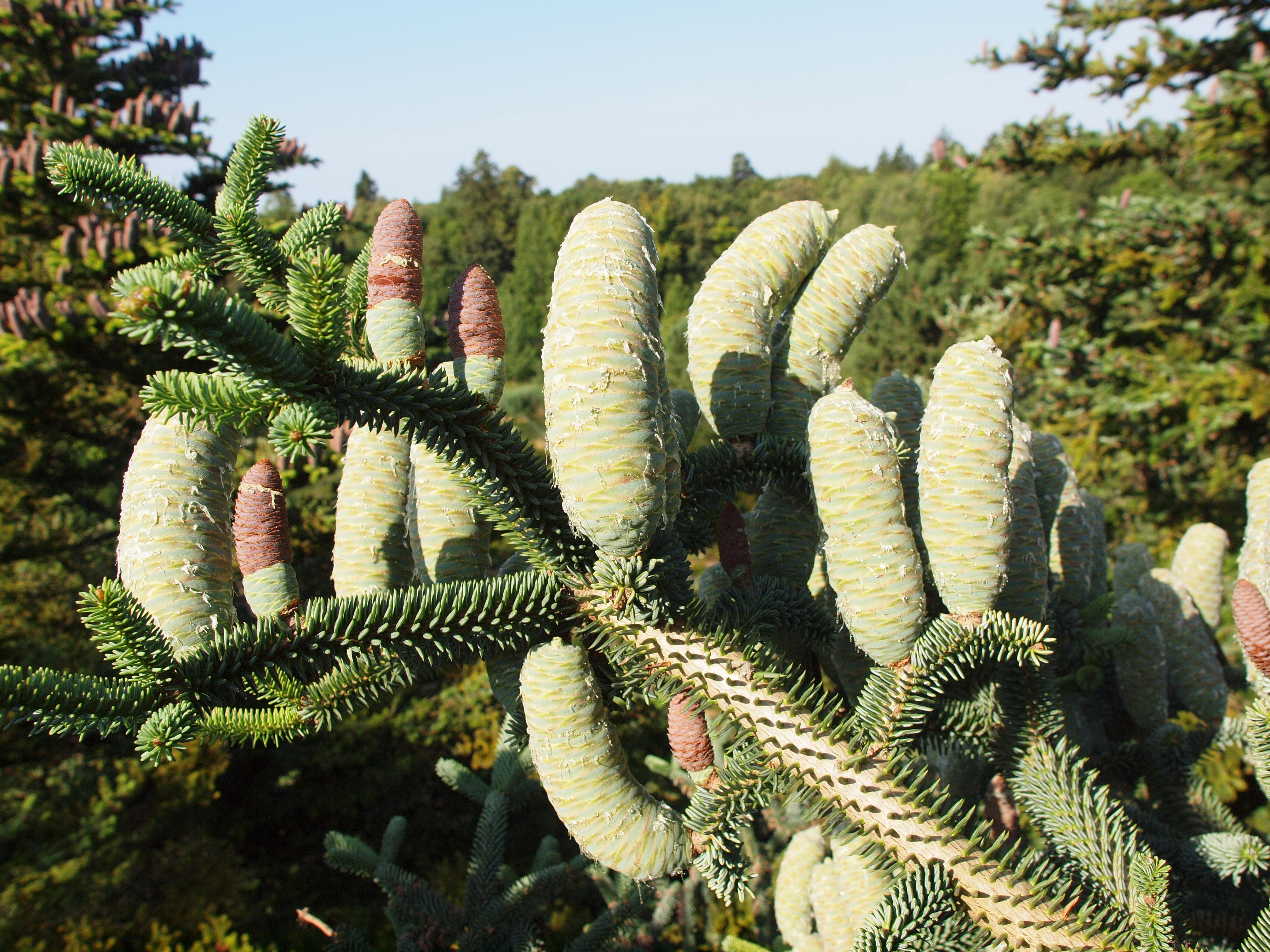 Algerian fir cones, botanical garden munich